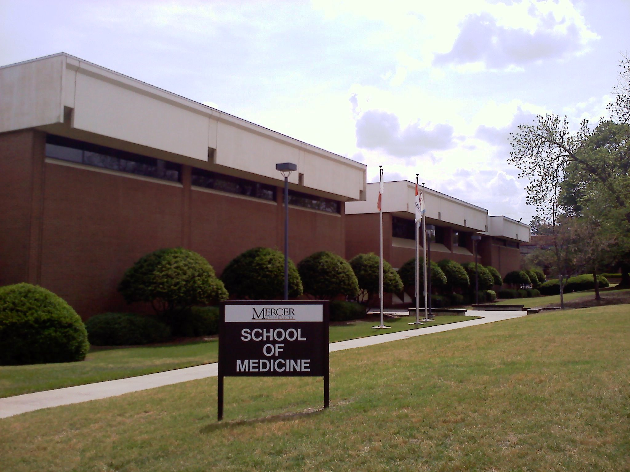 Mercer University's School of Medicine in Macon, Georgia, United States.